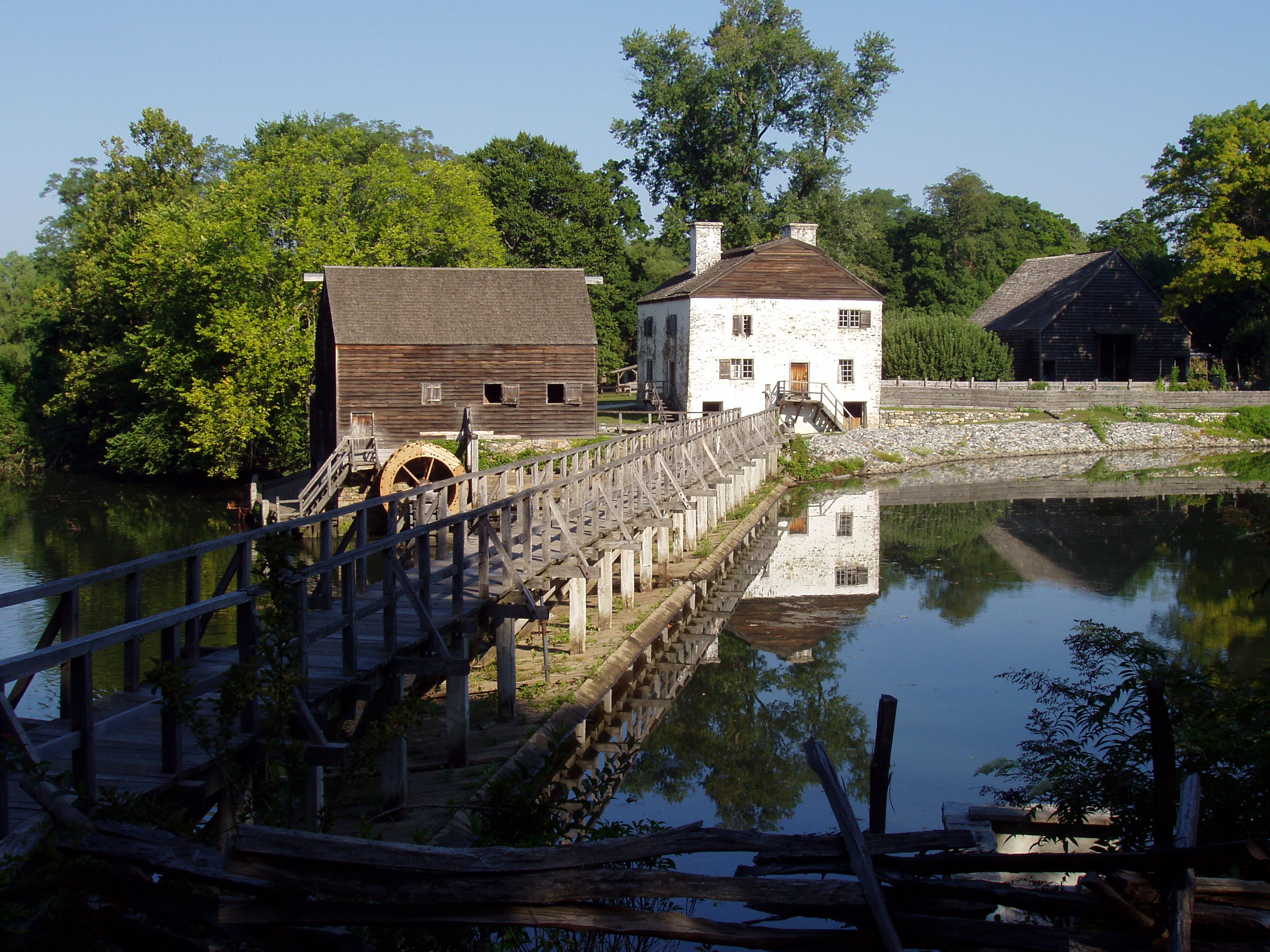 Philipsburg Manor, Sleepy Hollow, New York. Photograph taken by me, September 2005.